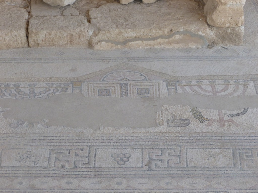 Similar to other synagogue mosaic floors contemporary to it, this one displays the Holy of Holies of the Temple flanked by 2 candelabra.